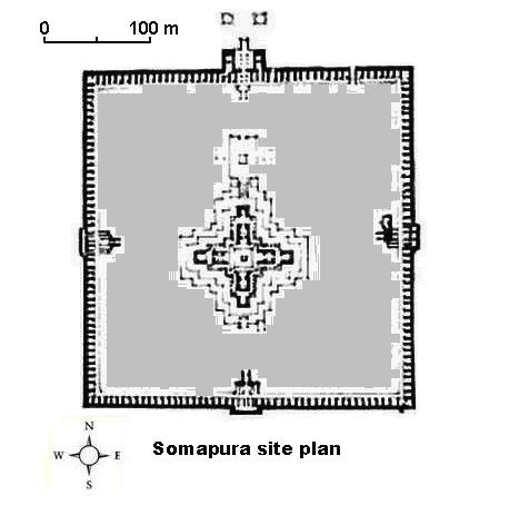 Sompura Vihara in Bengal